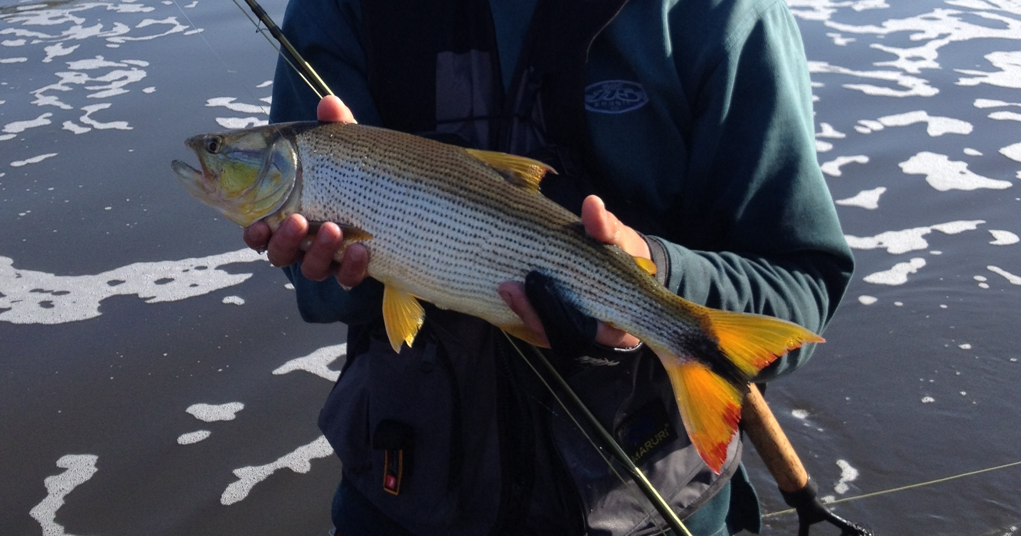 Dorado (likely Salminus hilarii) caught with fly tackle - São Paulo state, Brazil